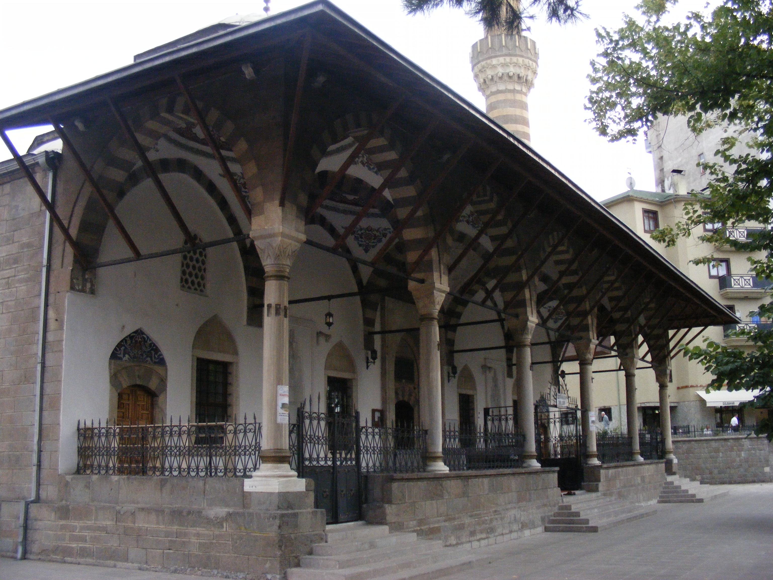 Gülbahar Hatun Mosque in Trabzon